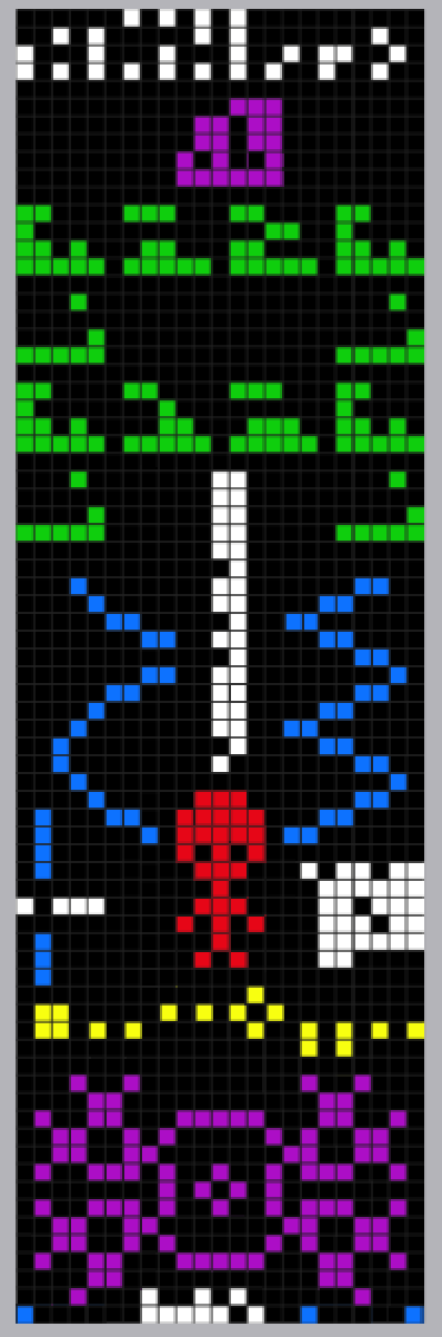 The Arecibo reply was the name given to a crop circle that appeared in farmland next to the Chilbolton radio telescope; home to the Search for Extraterrestrial Intelligence Institute (SETI) in Hampshire, UK, on 19 August 2001. It was 75 feet wide and 120 feet long. The design is so named because it appears to be a response to the Arecibo message, which SETI transmitted into space in 1974.